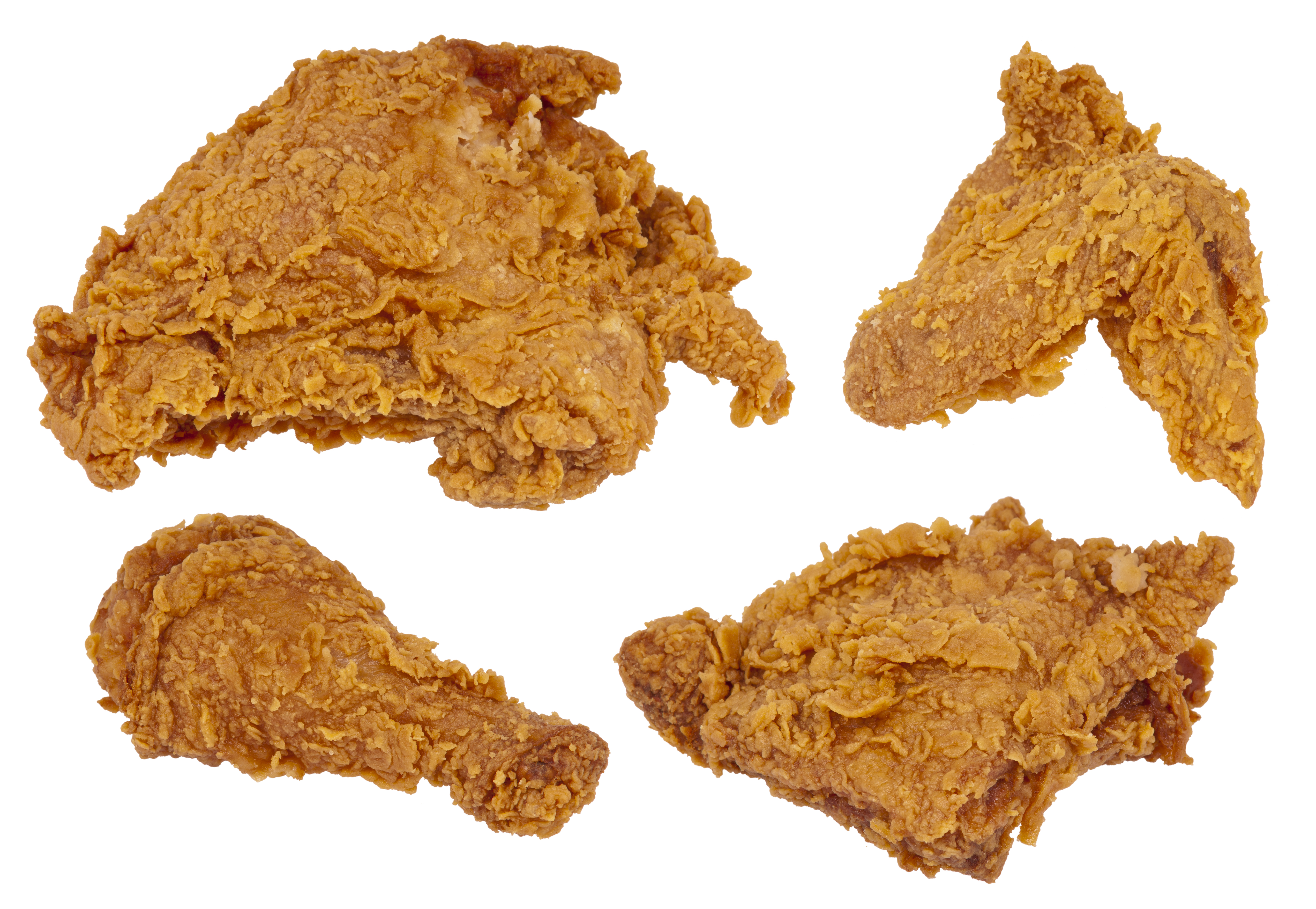 A set of fried chicken pieces from a Popeyes fast food restaurant. Shown clockwise: wing, thigh, leg and breast piece.